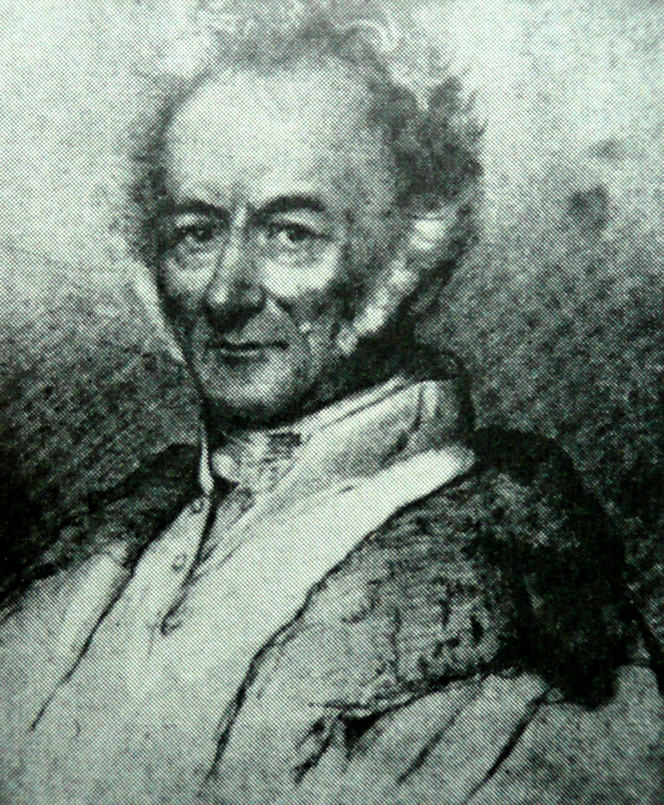 Christian Friedrich Brendel (1776-1861), famous saxon mining engineer.